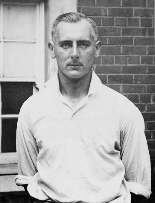 Hedley Verity at Headingley in Leeds, circa April 1932.